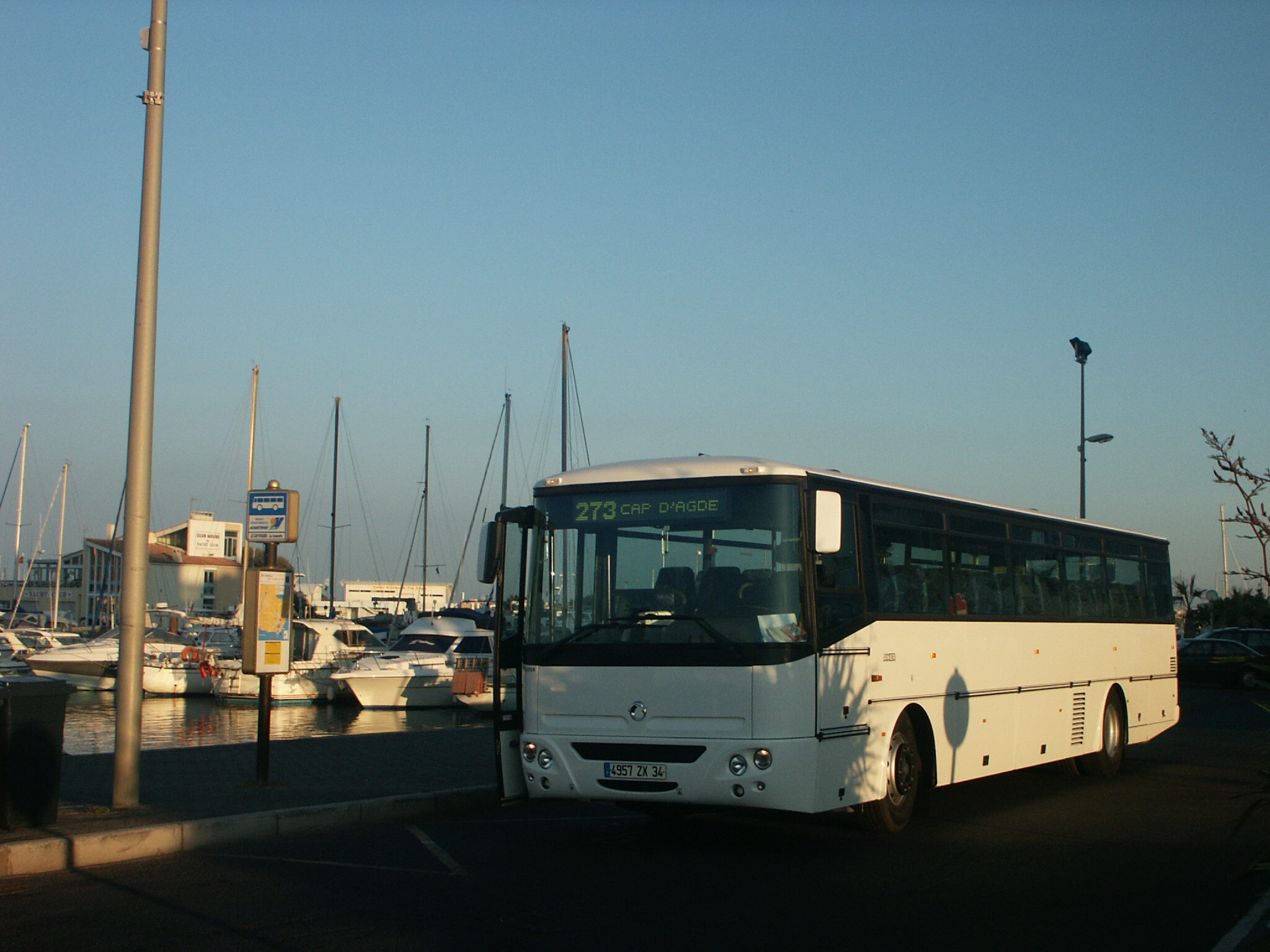 The Irisbus Axer n°023058 of the bus network of Hérault Méditerranée — in Cap d’Agde, France — on July 25, 2003.